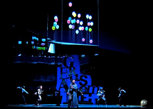 Scene from Francisco Negrin's production of Handel's 1711 opera Rinaldo. Chicago Lyric Opera, 2012. Photo by Francisco Negrín